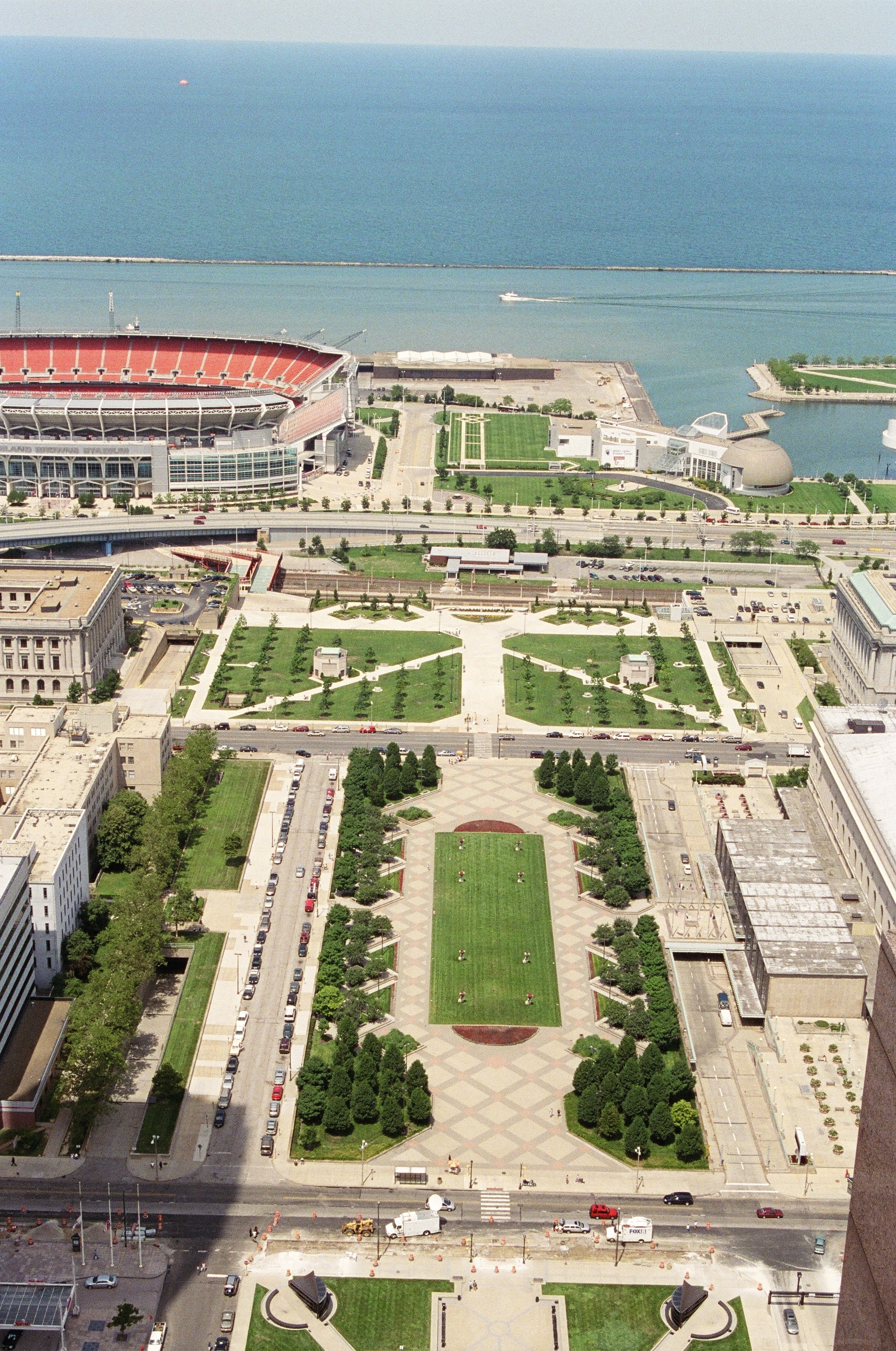 Mall and Lake Erie, with Browns stadium to the left. Cleveland, Ohio, United States.